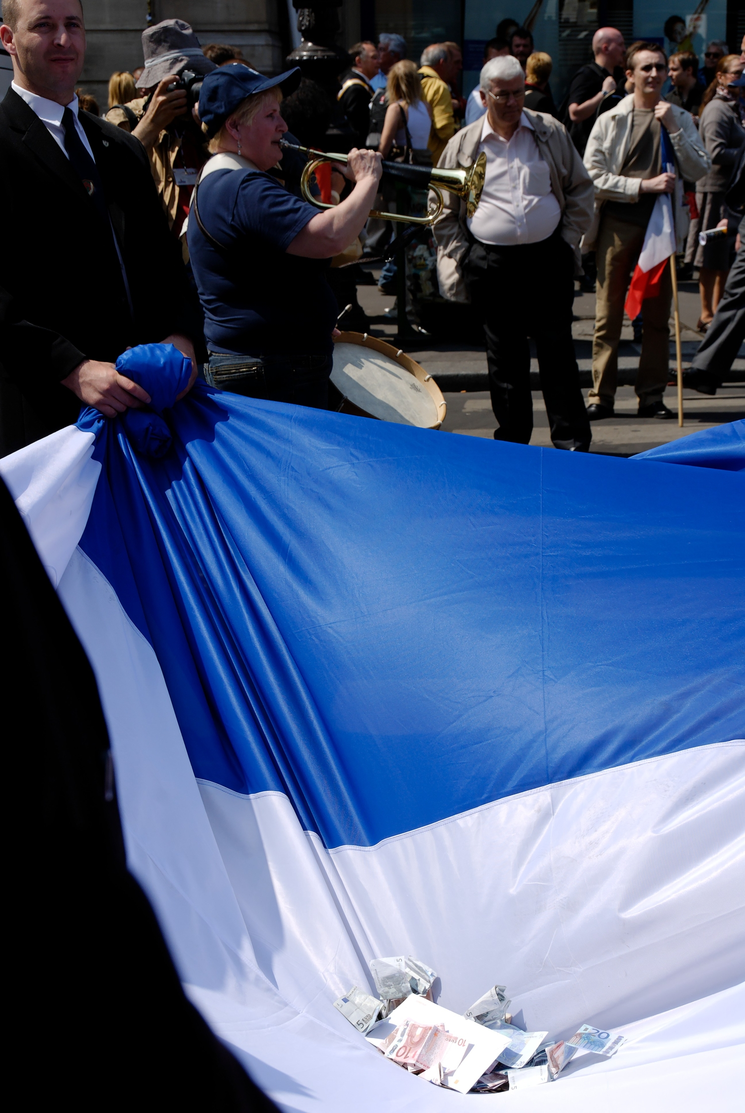 Members of the National Front collecting money in a giant French flag at the party's annual tribute to Joan of Arc in Paris.